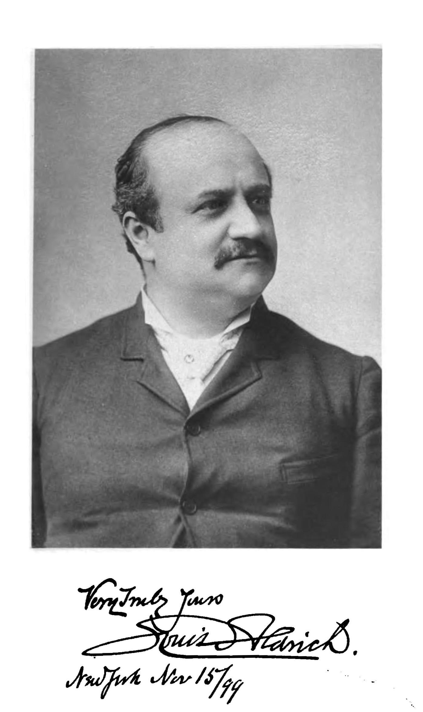 Louis Aldrich (1843-1901) German American actor